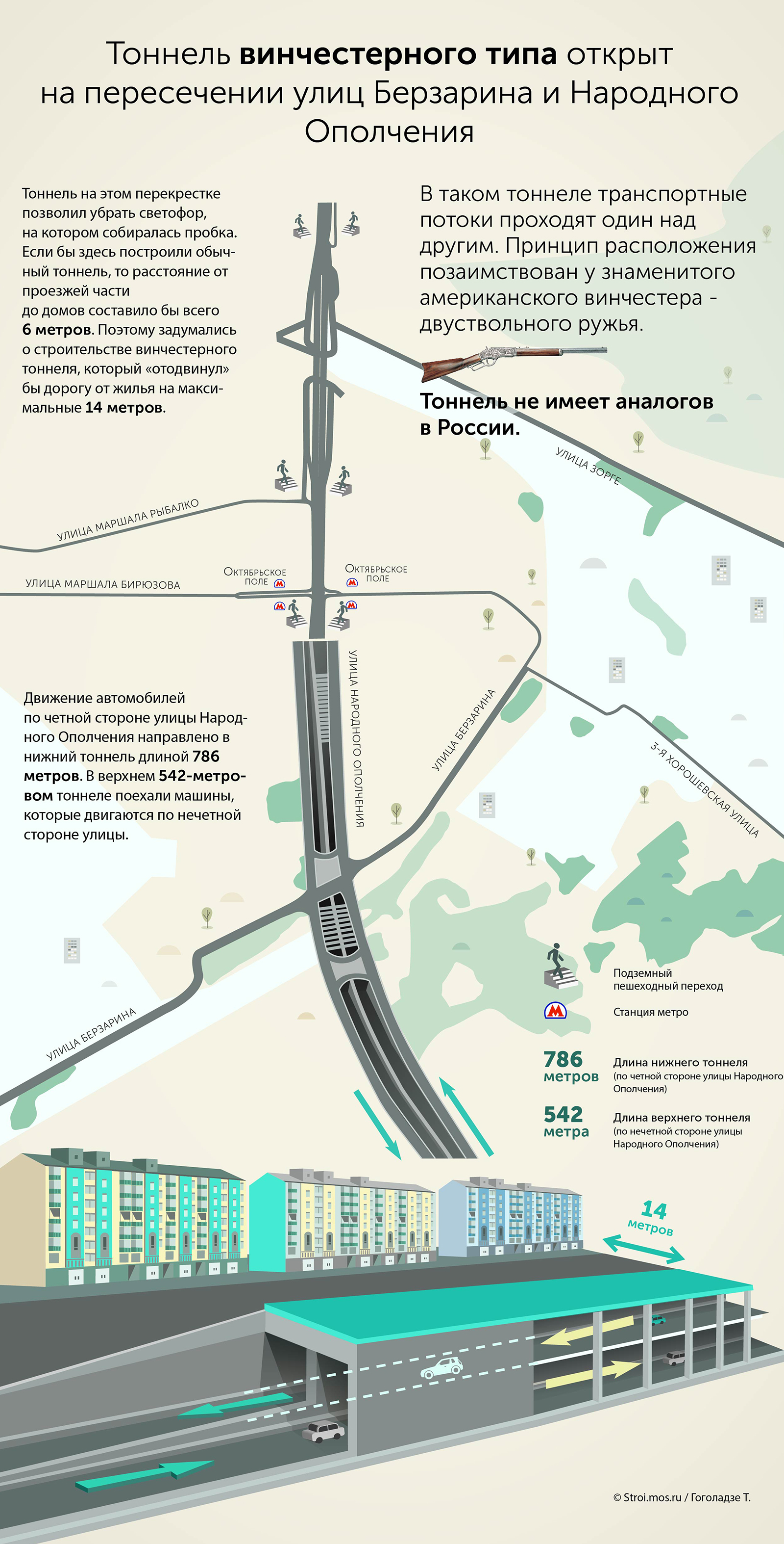 Карта Винчестерного тоннеля Северо-Западной хорды